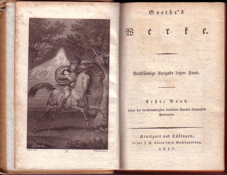 Title page of the first book of the final complete edition of Goethe's works "Vollständige Ausgabe letzter Hand").